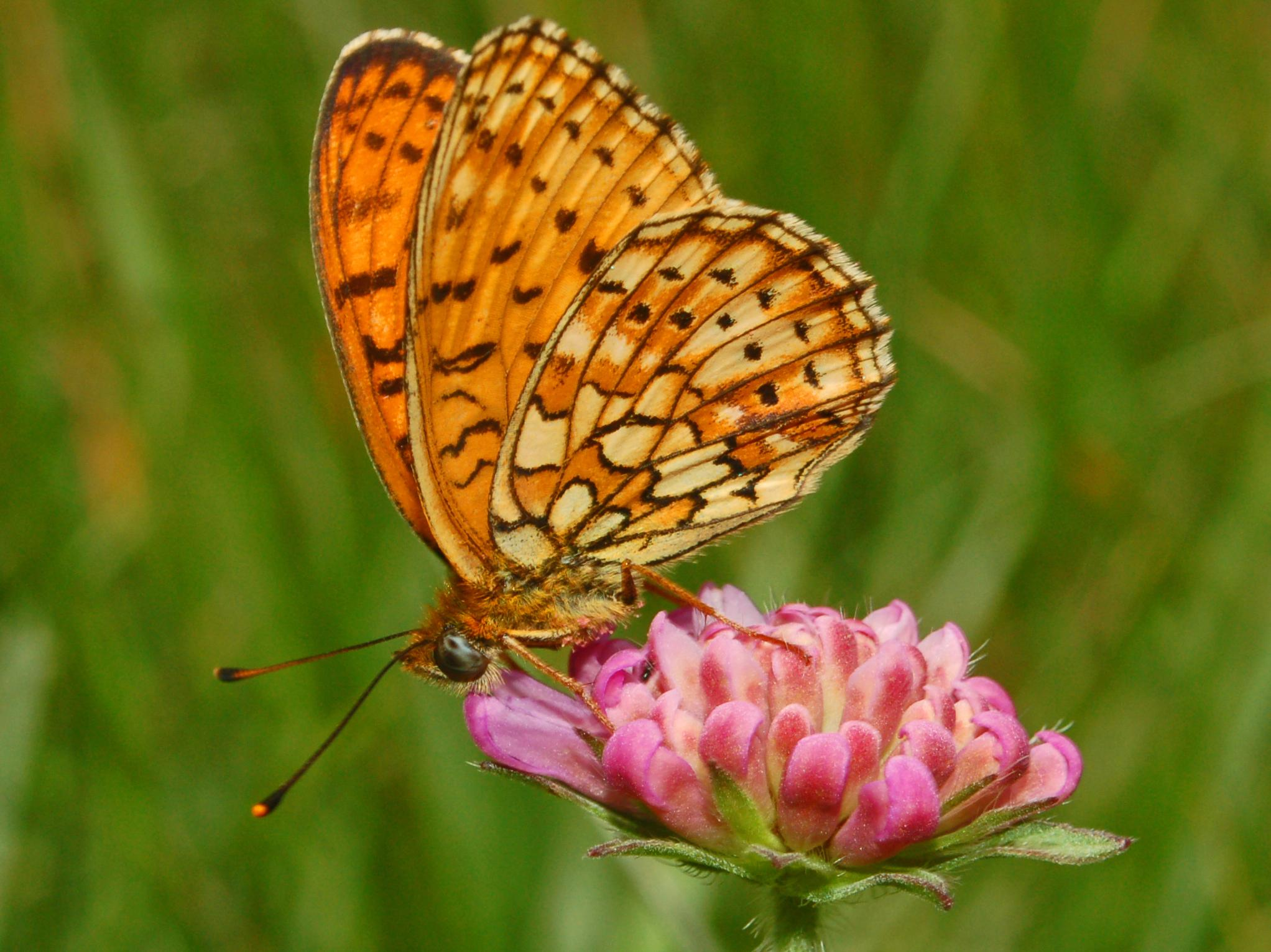 Brenthis hecate. Piani di Praglia, Genova, Italy